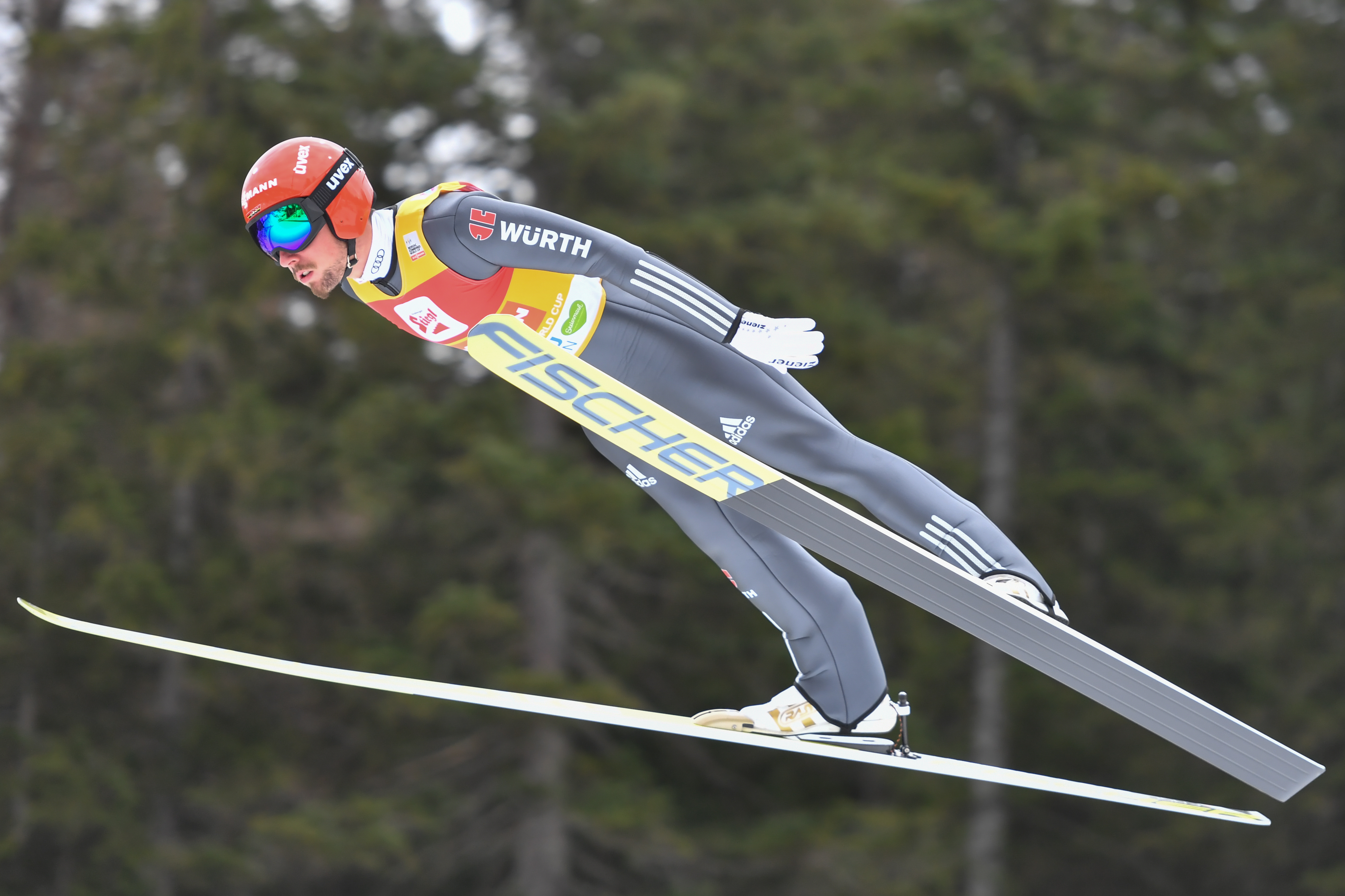 FIS World Cup Nordic Combined, Ramsau/Austria, 2016-12-16 to 2016-12-18.